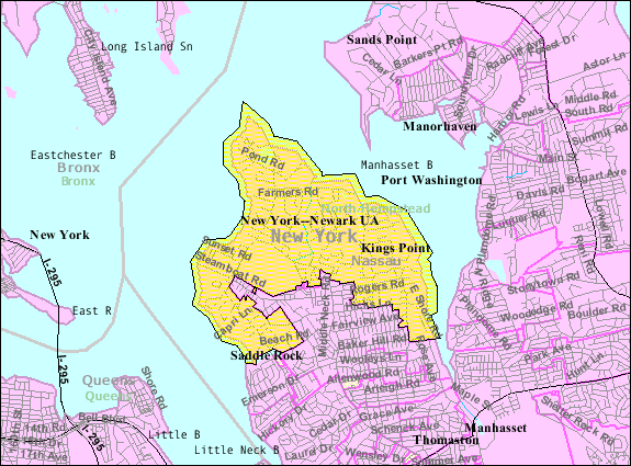 U.S. Census 2000 reference map for Kings Point, New York